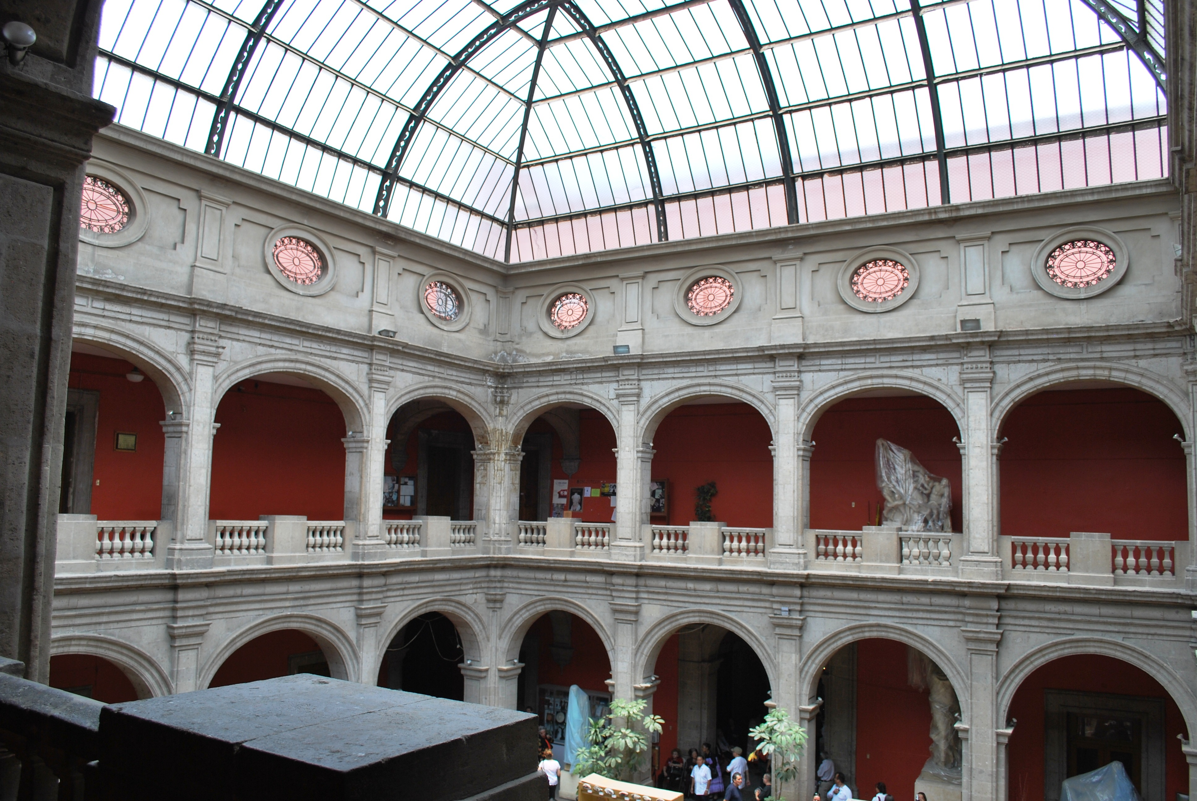 View of upper floor of the San Carlos Academy building located in the historic center of Mexico City